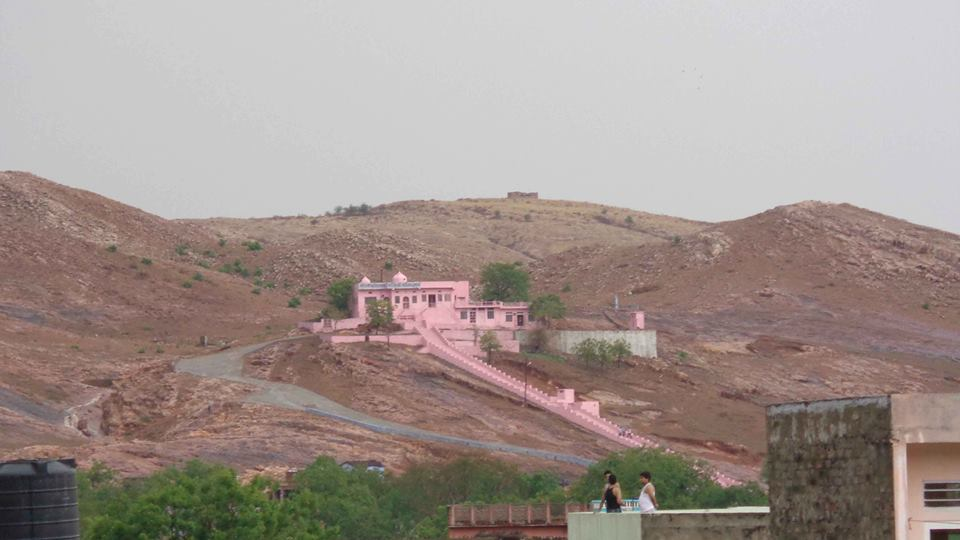 Ghateliya Balaji